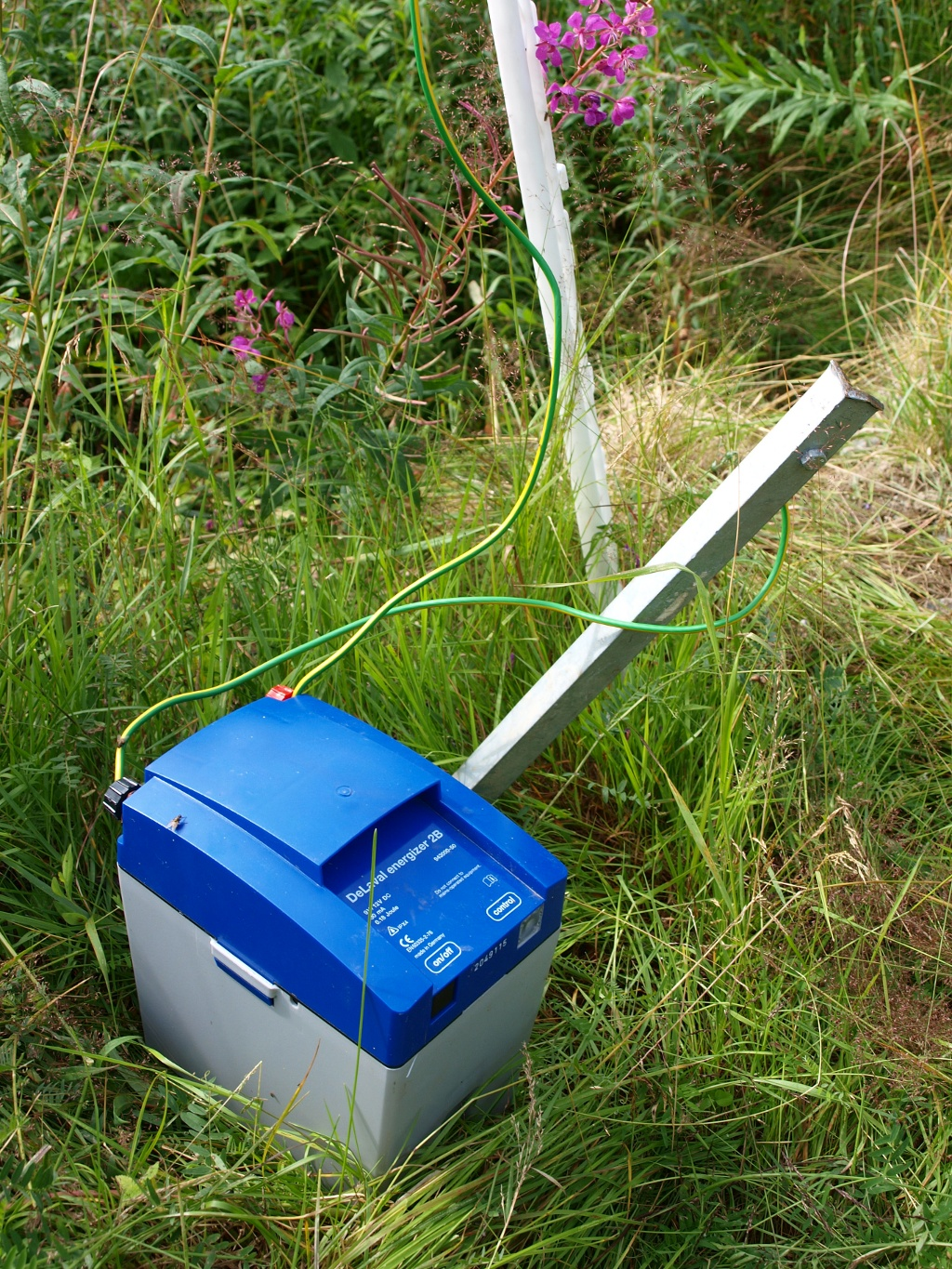 Generator for Electric fence